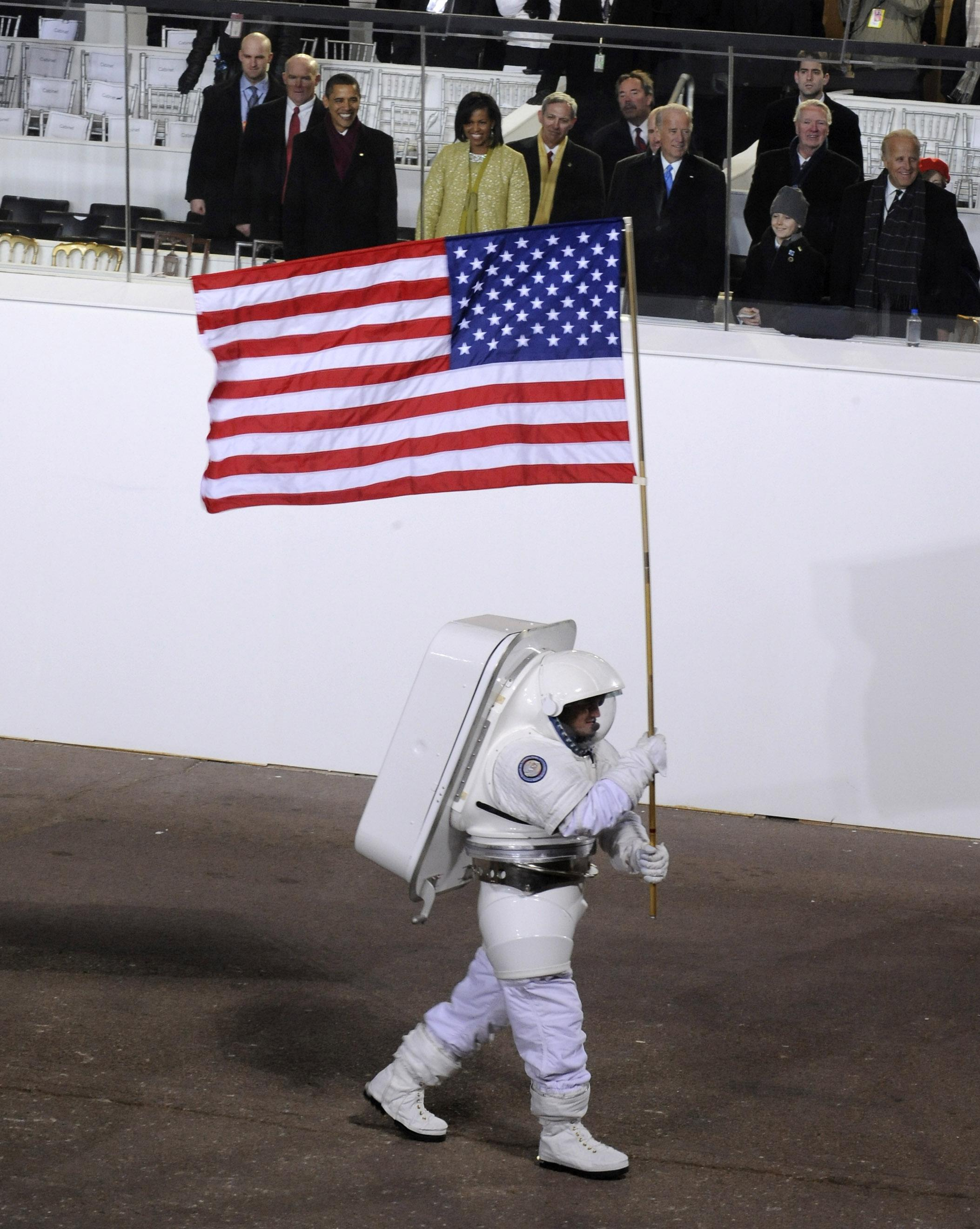 The Reviewing Stand - Astronaut Rex Walheim pauses before the reviewing stand during the 56th Inaugural Parade on Tuesday, Jan. 20, 2009. He is wearing a prototype of NASA's next generation spacesuit.